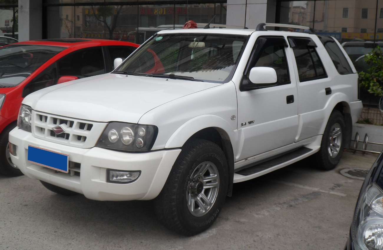 Landwind X6 facelift photographed in Shanghai, China.